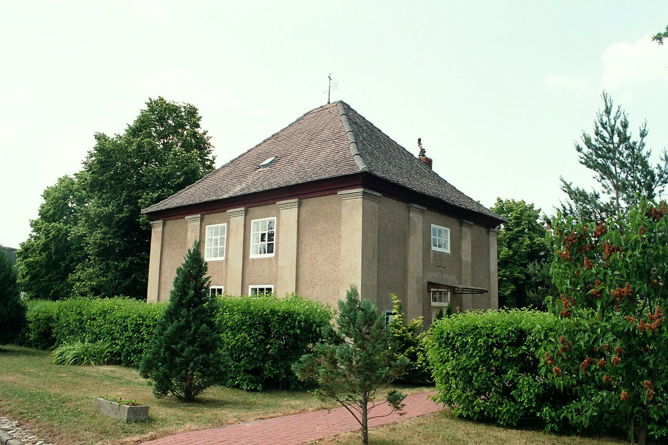 Chörau (Osternienburger Land), the prayer house